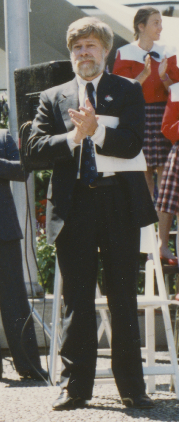 Bob Walsh attending a speech by Jesse Jackson (not shown) at the Goodwill Games, Seattle, Washington, U.S., 1990.